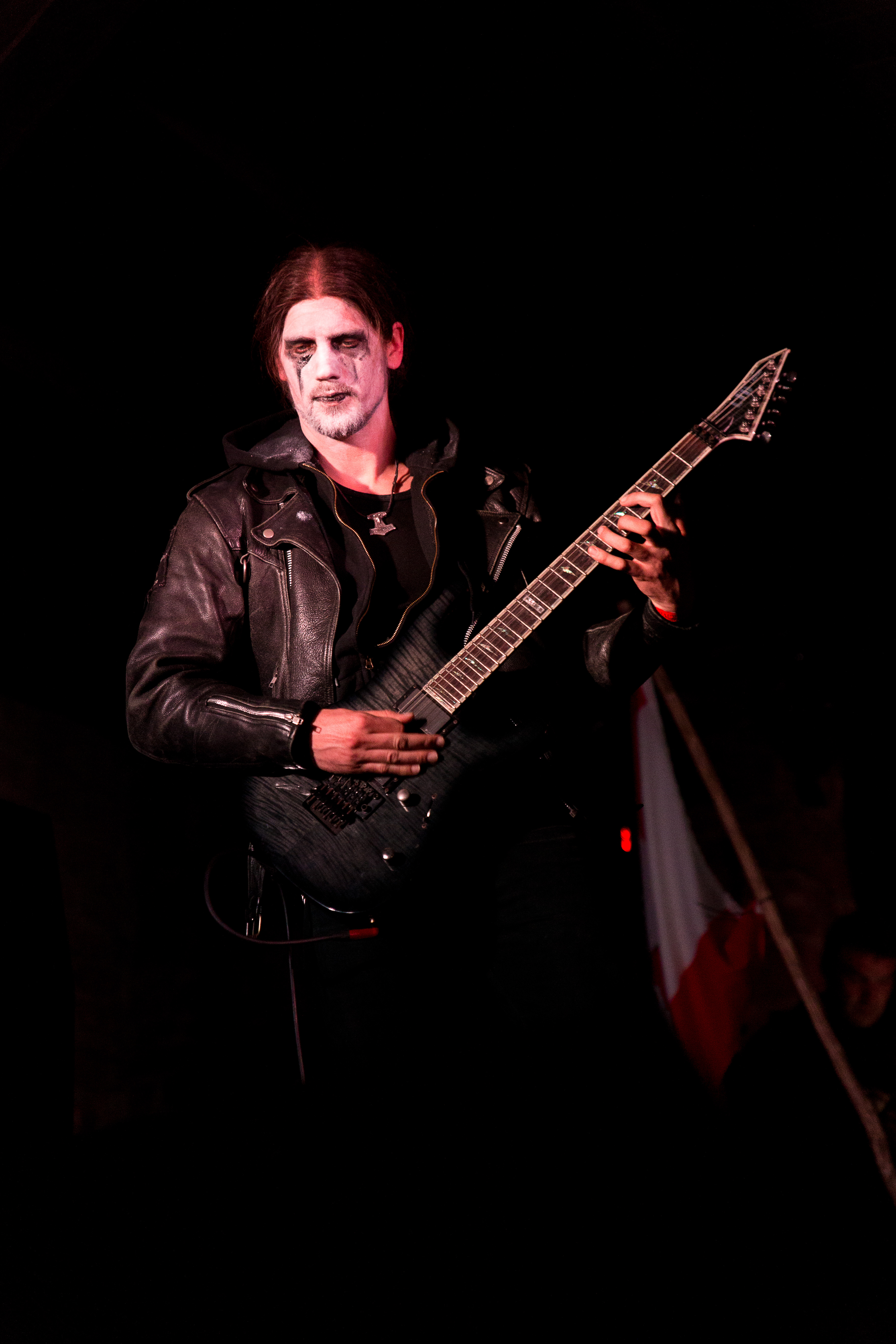 The German pagan metal band Heimdalls Wacht at the Dark Troll Open Air 2016 in Bornstedt/Germany.